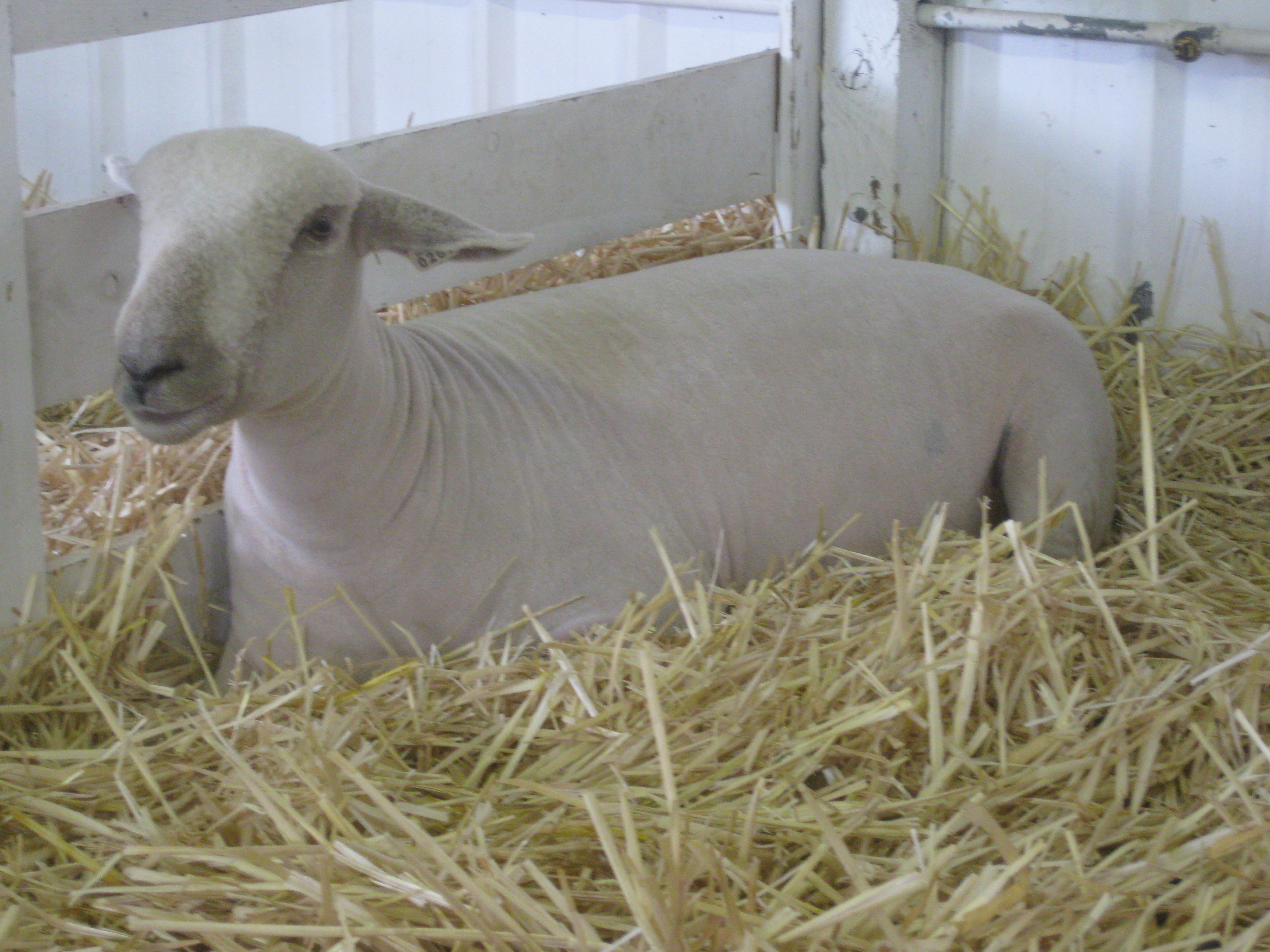 A Southdown sheep at the Clark County fair in Washington